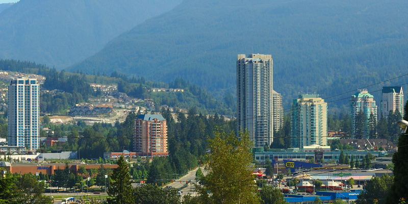 Early morning Coquitlam, B.C. skyline